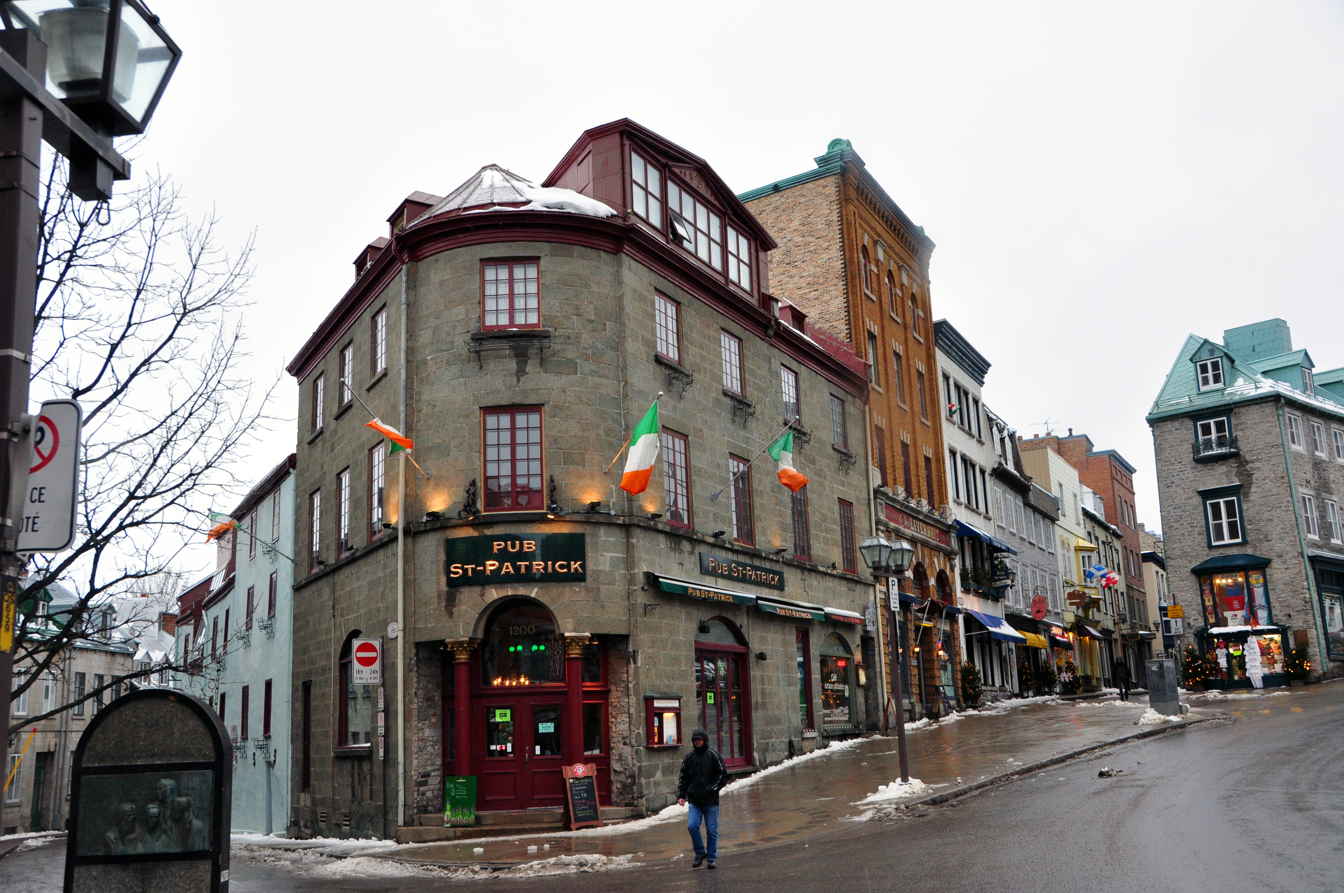 Rue Couillard Quebec City Upper Town winter 2010 St Patrick Irish Pub